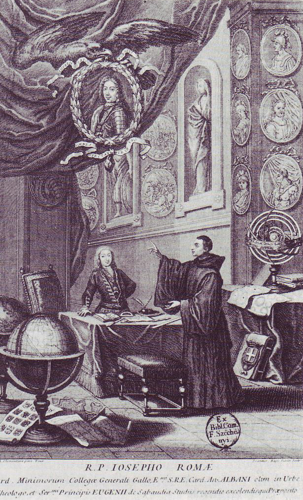 Prince Eugene of Savoy (1663-1736) and Kardinal Albani by J. B. Scotin after an unknown painting by J. M. Clementina, Magyar Nemzeti Muzeum, Budapest. Copperplate engraving, 34,2 x 22 cm.